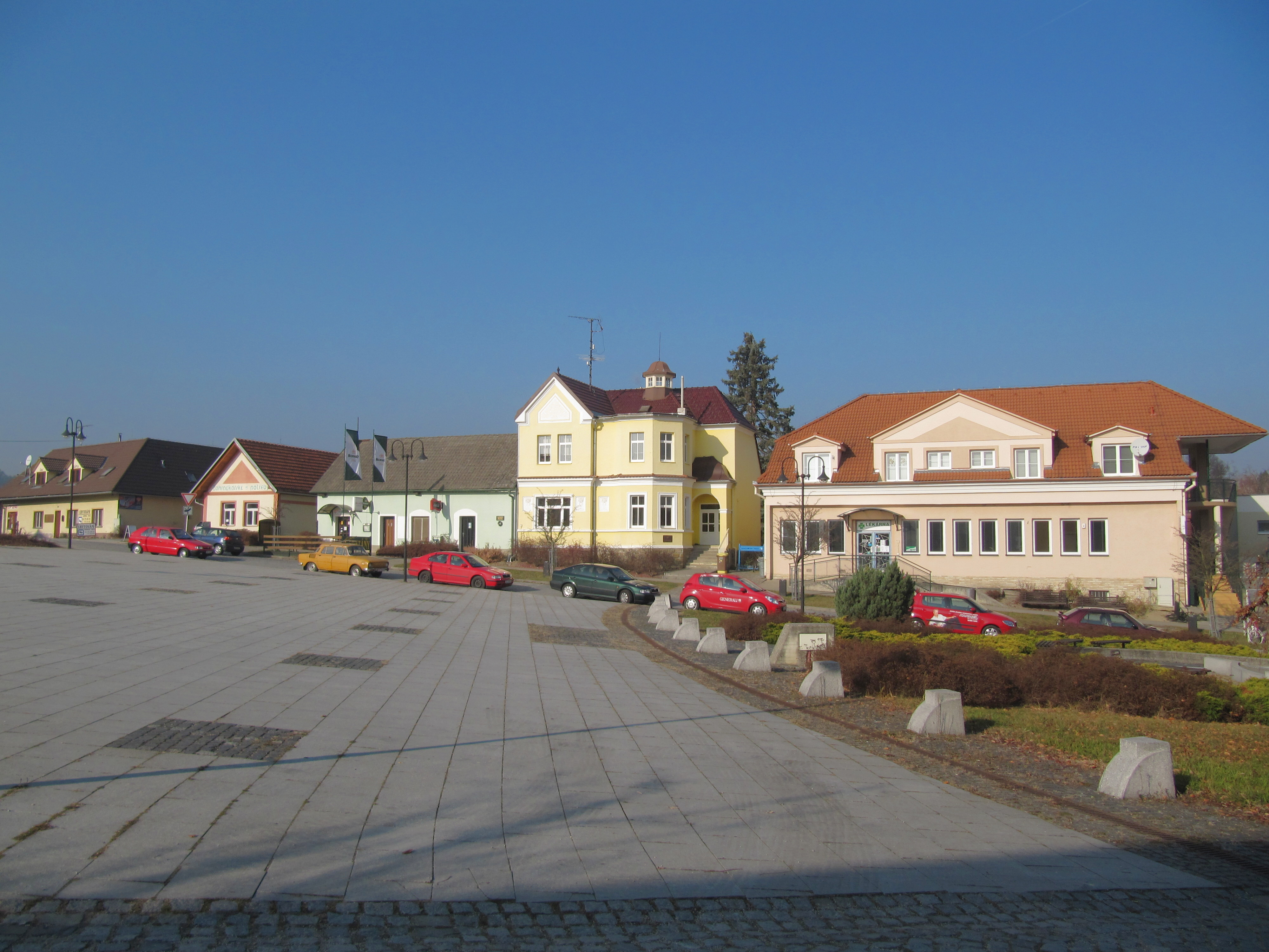 Slavičín in Zlín District, Czech Republic. Square Horní náměstí, northern part.